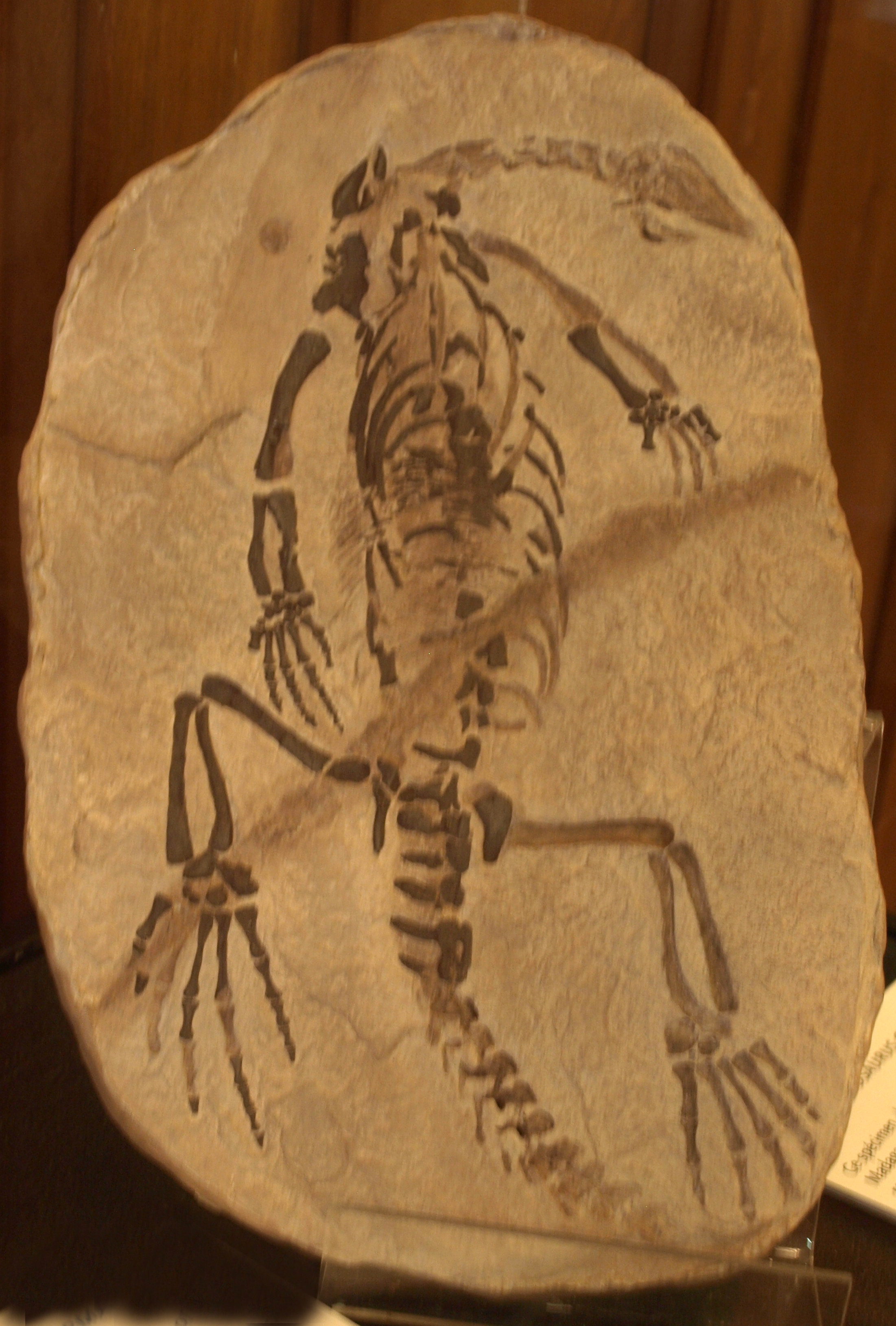 Close-up of a specimen of Claudiosaurus germaini, on display at the Redpath Museum, Montreal.